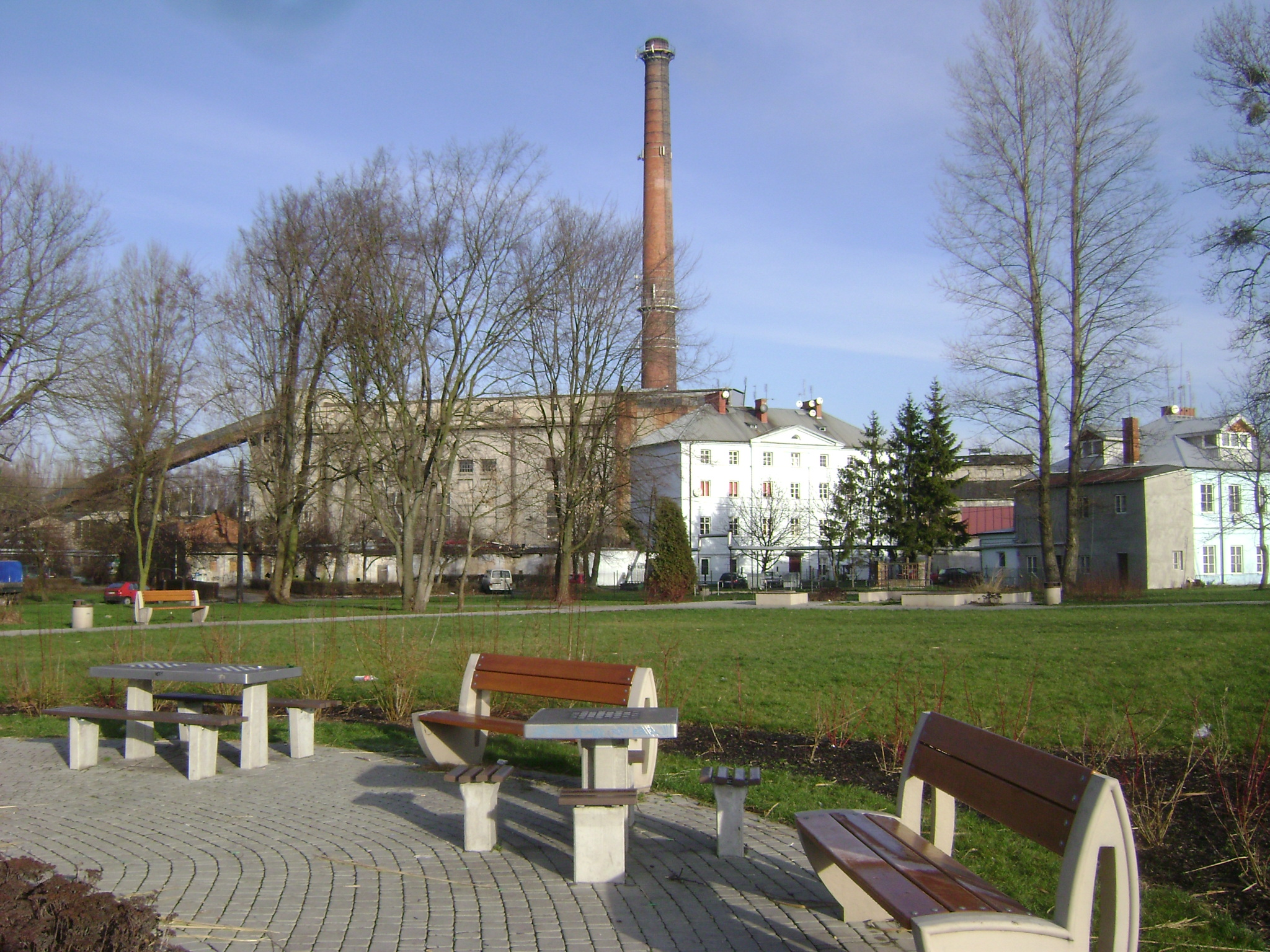 Poland. Konstancin-Jeziorna. Paper factory